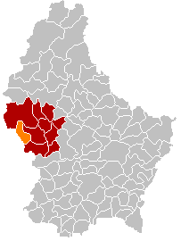 Own edit of Kanton RedangeLocatie.png